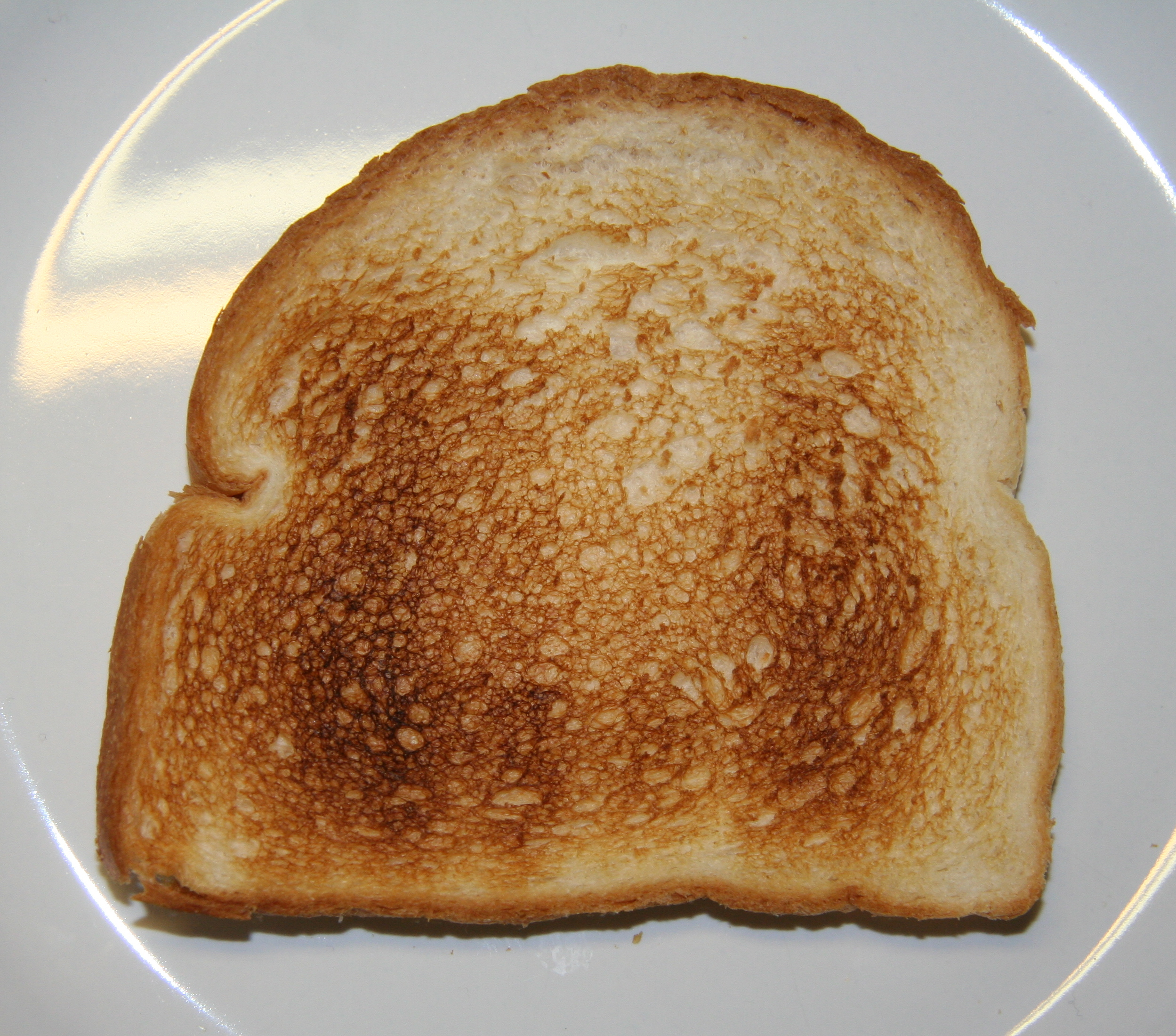 Toast made from white wheat starch bread, other toasts may be made from other bread types, wholemeal (brown) wheat flour, Atta flour, buckwheat flour, brown rice flour, etc. See Flour